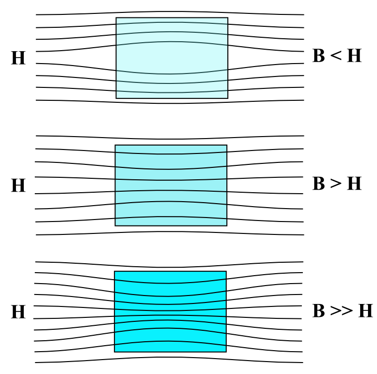 Permeability